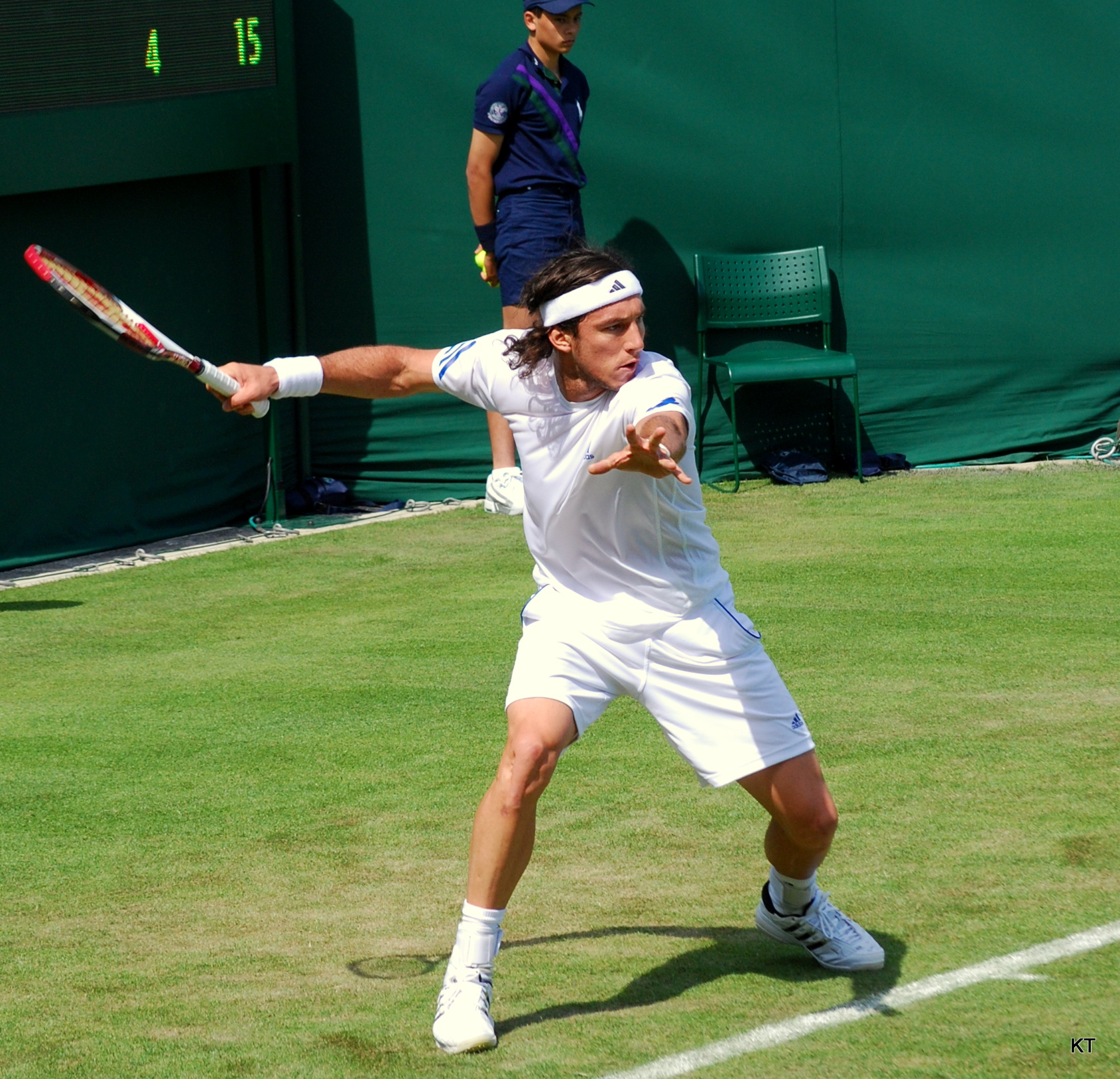 Juan Monaco during his first round match with Mikhail Youzhny. Youzhny won 4-6, 6-2, 6-2, 4-6, 6-4. Day 2 of Wimbledon 2011.